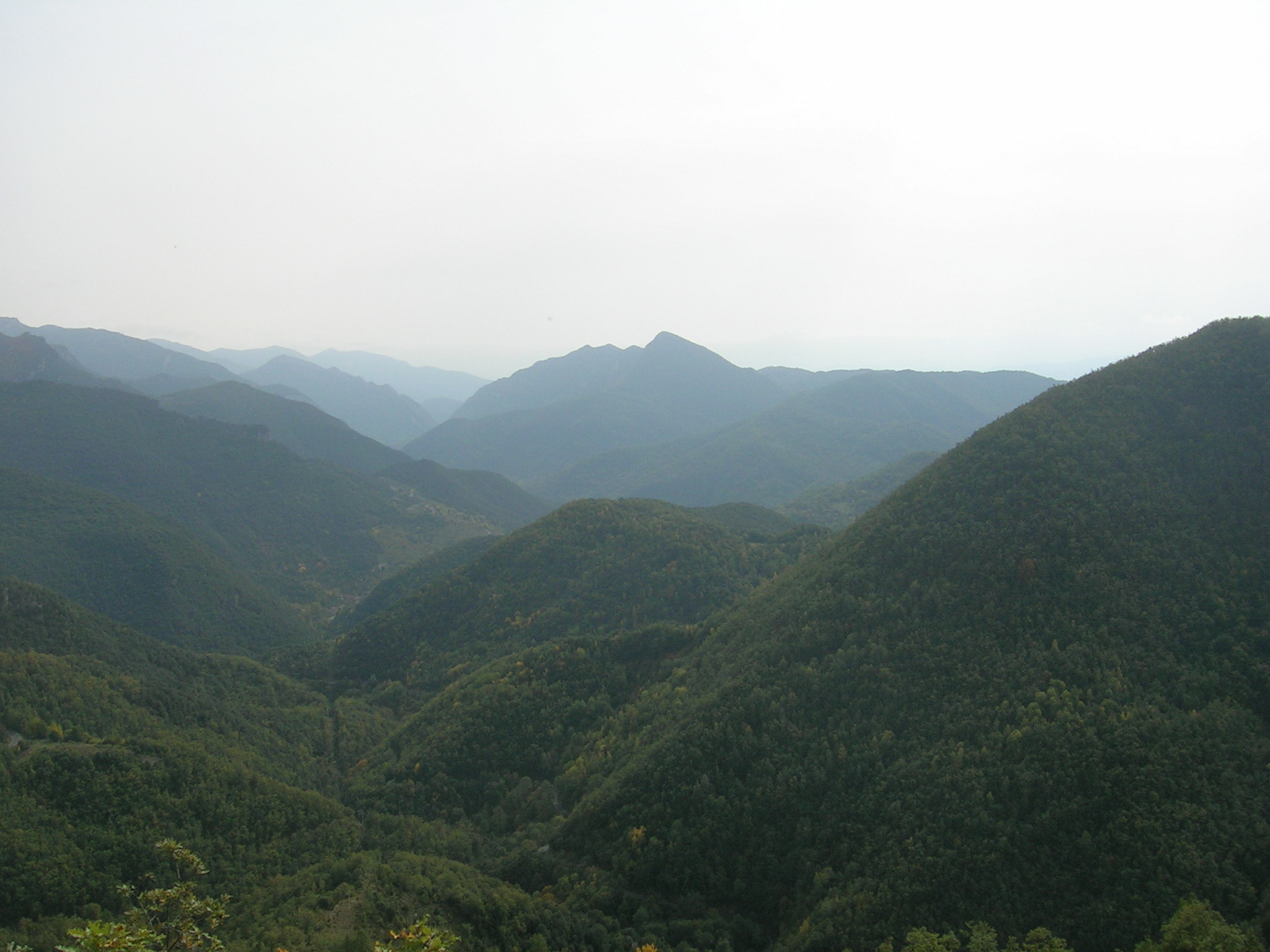 Views from Rocabruna's Castle, Camprodon, Catalonia.